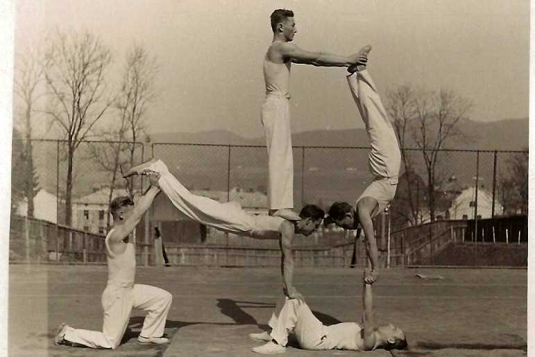 Sokół